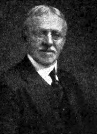 William Henry Meadowcroft (1853-1937)